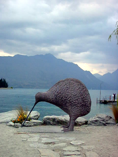 Kiwi sculpture at Queenstown Marina